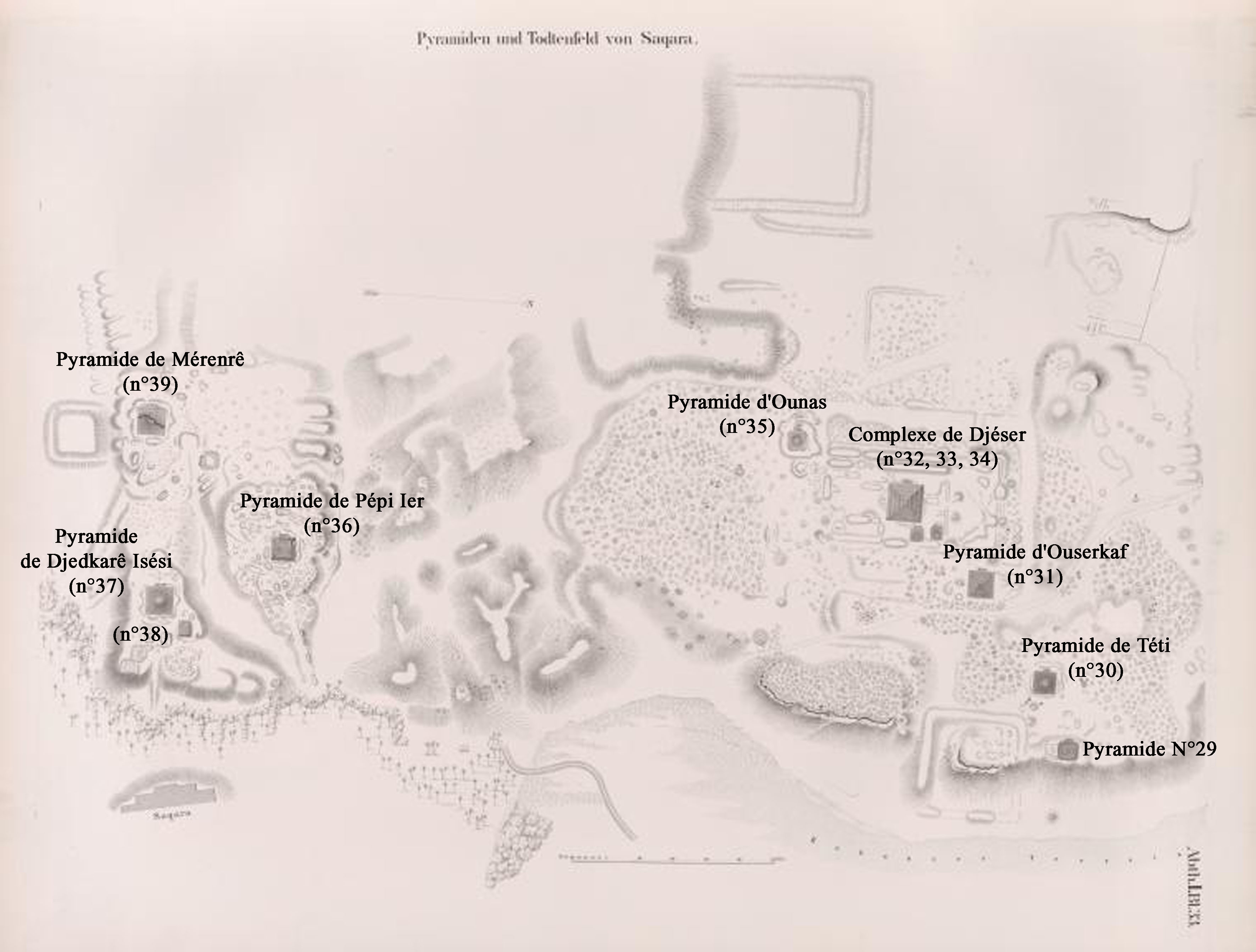 Carte d'Abou Rawash (Karl Richard Lepsius)